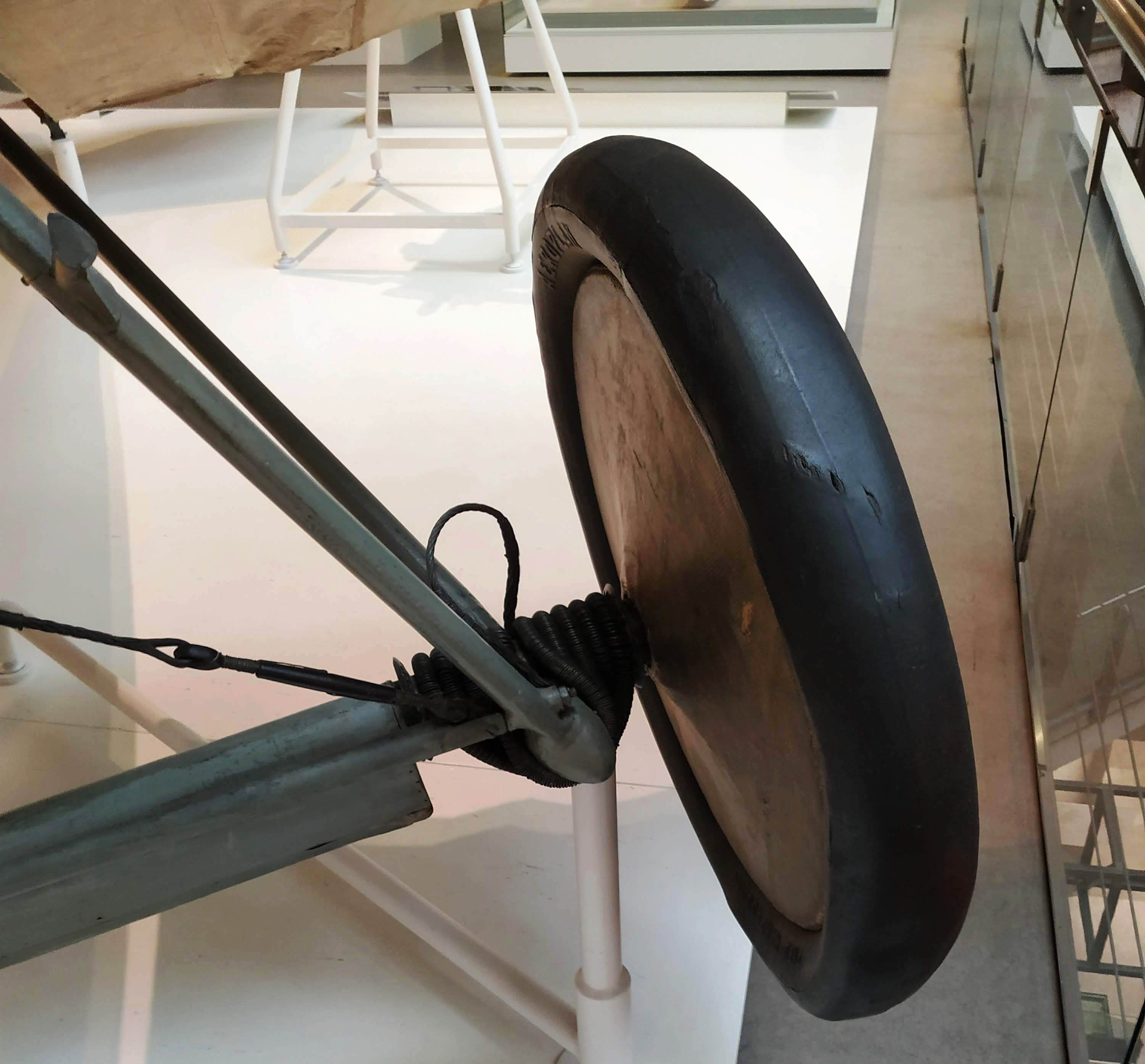 Aviatik Berg D 1 Wheel of a plane with rubber dampers